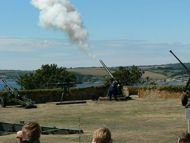 West Bastion, Pendennis. Firing the noon gun. One of the guns in the west bastion is fired at noon each day. The one fired on this occasion was an anti-aircraft gun from the first world war, which had been adapted from a field gun to protect London against bombing attacks by Zeppelins.